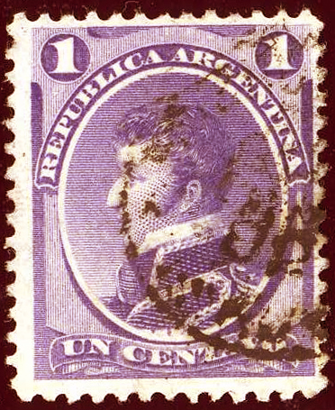 1 Centavo Stamp of Argentina issue 1873, General Balcarce (1774-1819). Used, violet Michel N°18a.